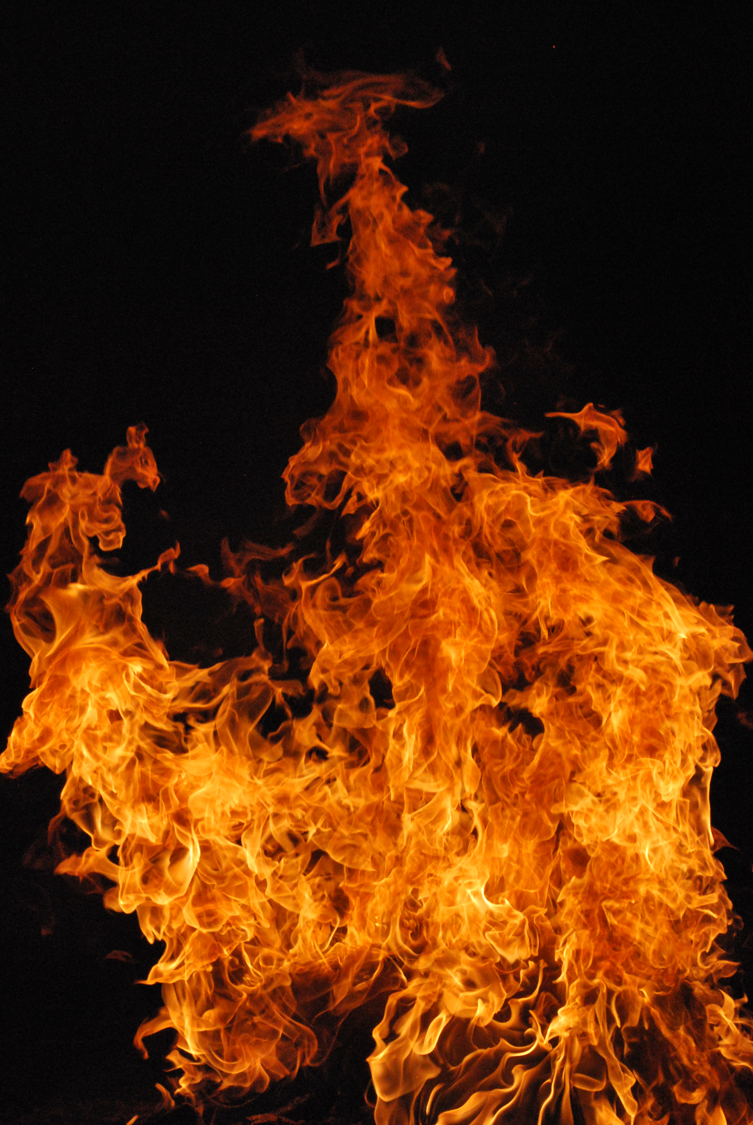 Flame of fire, burning